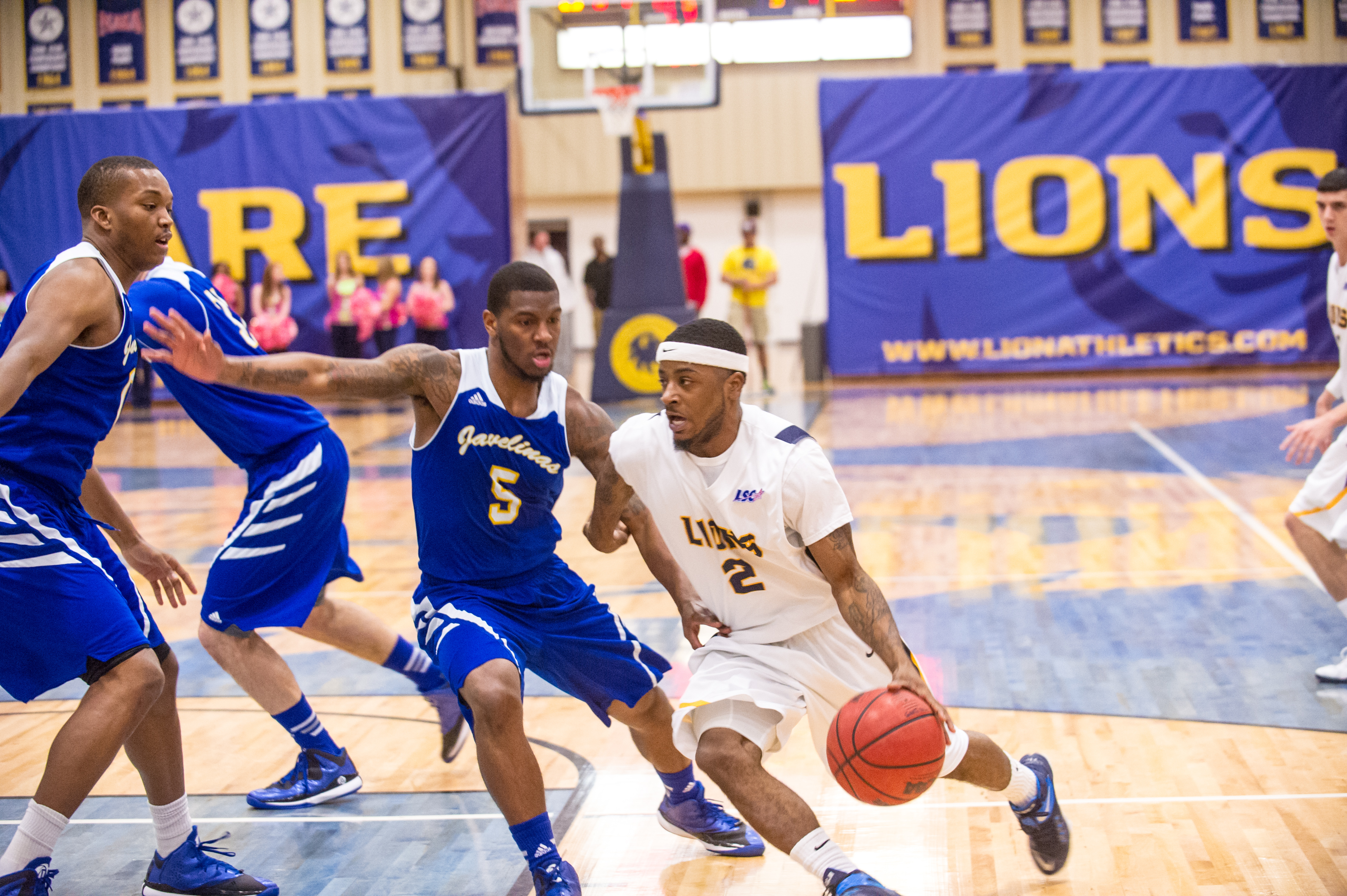 Athletics-MBSK vs TAMUK-1572.jpg 2013–14 Texas A&M–Commerce Lions men's basketball team